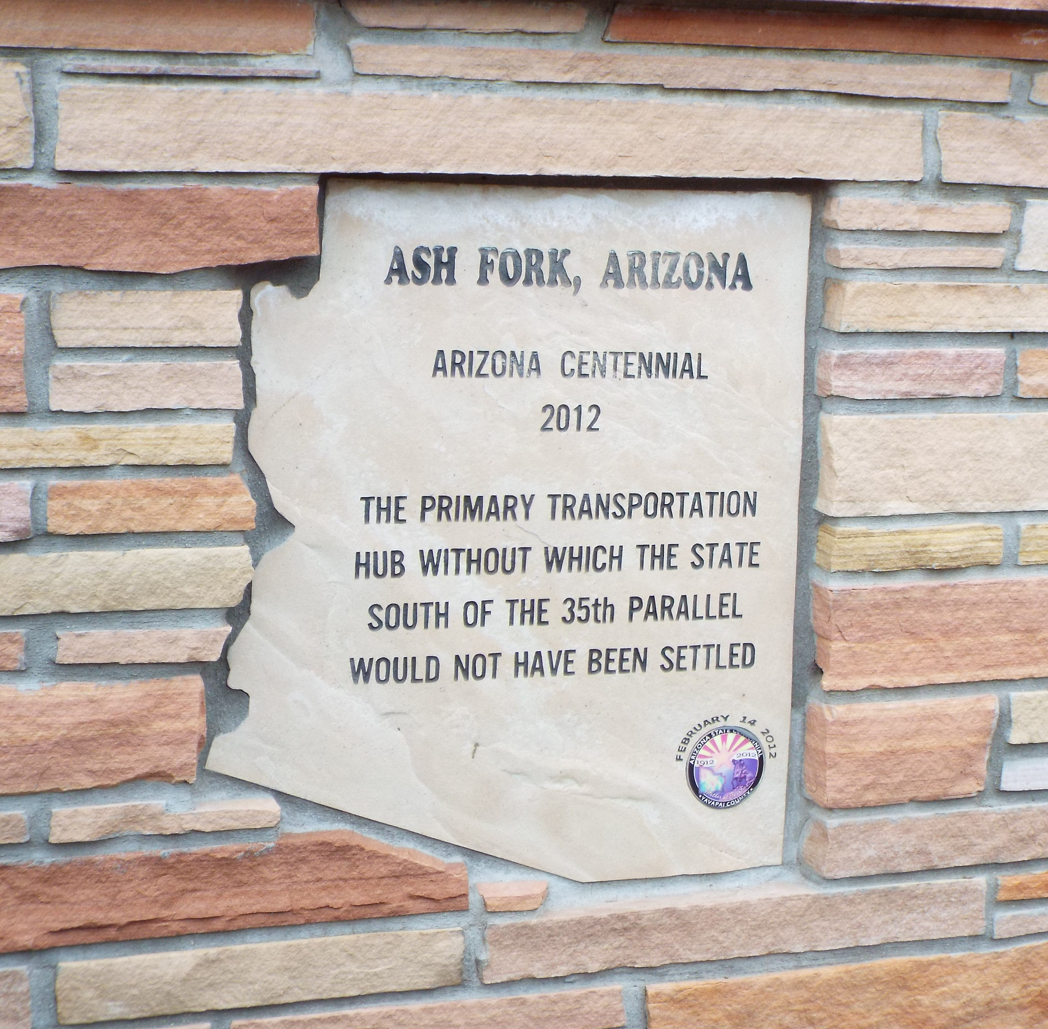 Ash Fork Centennial Marker in Ash Fork, Az